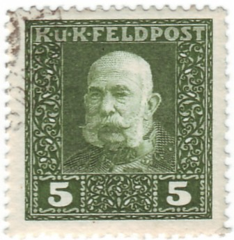 Austria-Hungary Military (Feldpost) stamp, Mi Nr 25, 5 heller, engraved by F. Schirnböck.